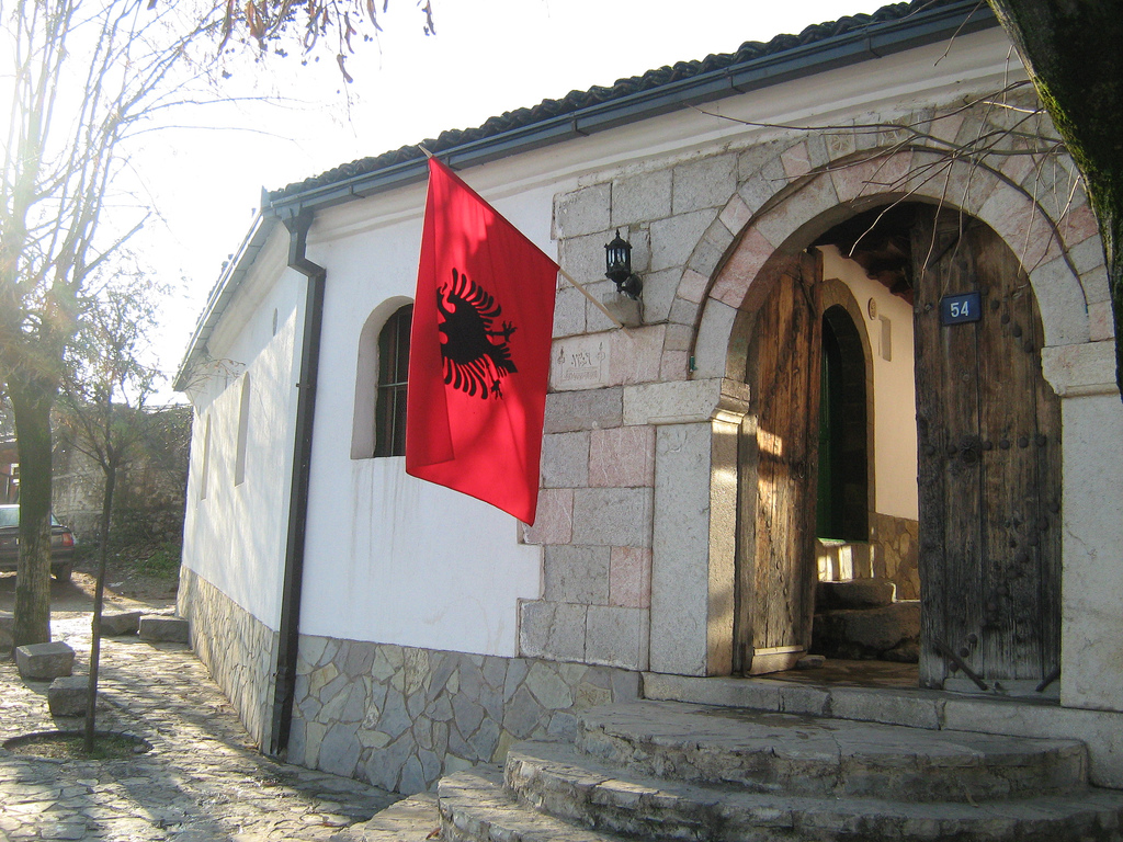 Teke of Shehj Emini in Gjakova